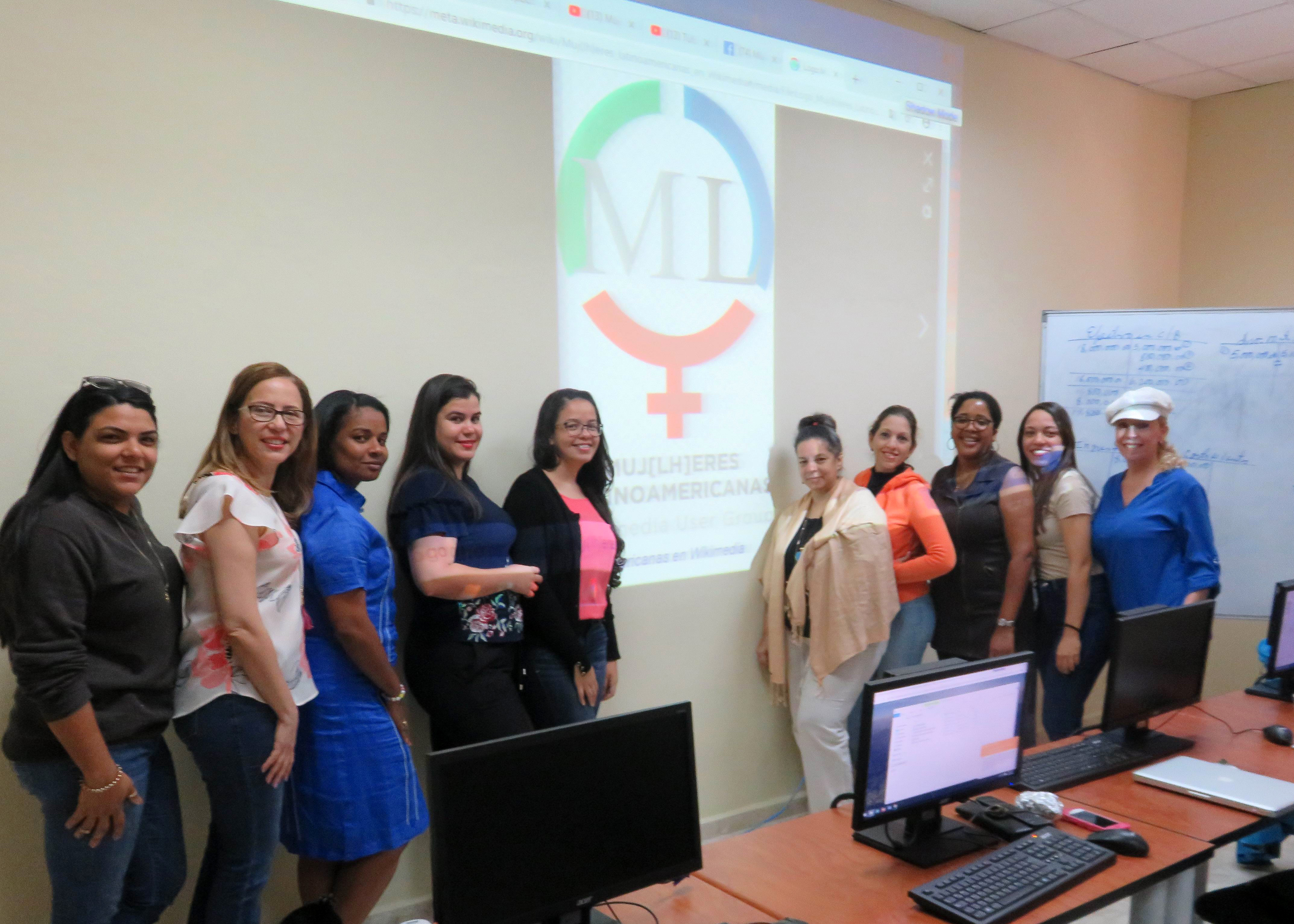 Muj(lh)eres latinoamericanas en Wikimedia in Dominican Republic